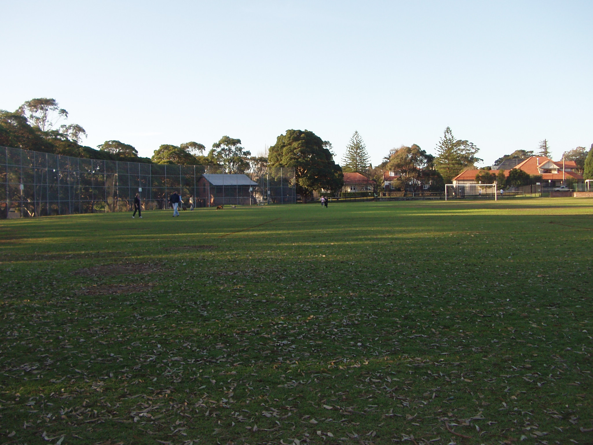 Kingsford Smith Oval, Longueville, Sydney, Australia.